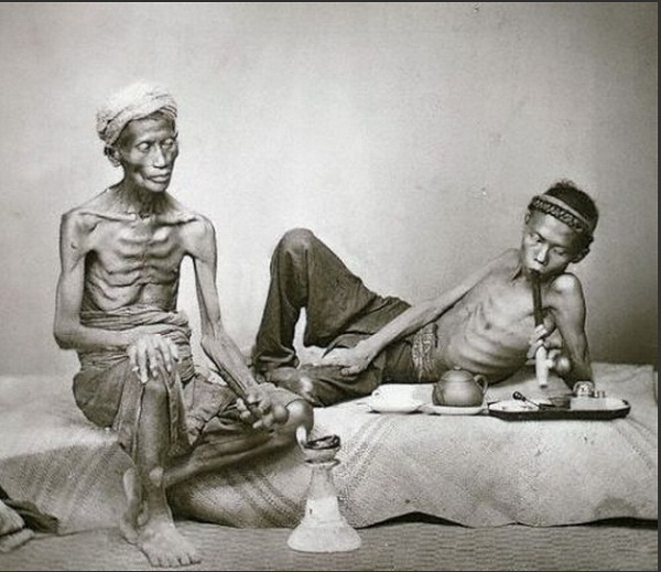 Opium using